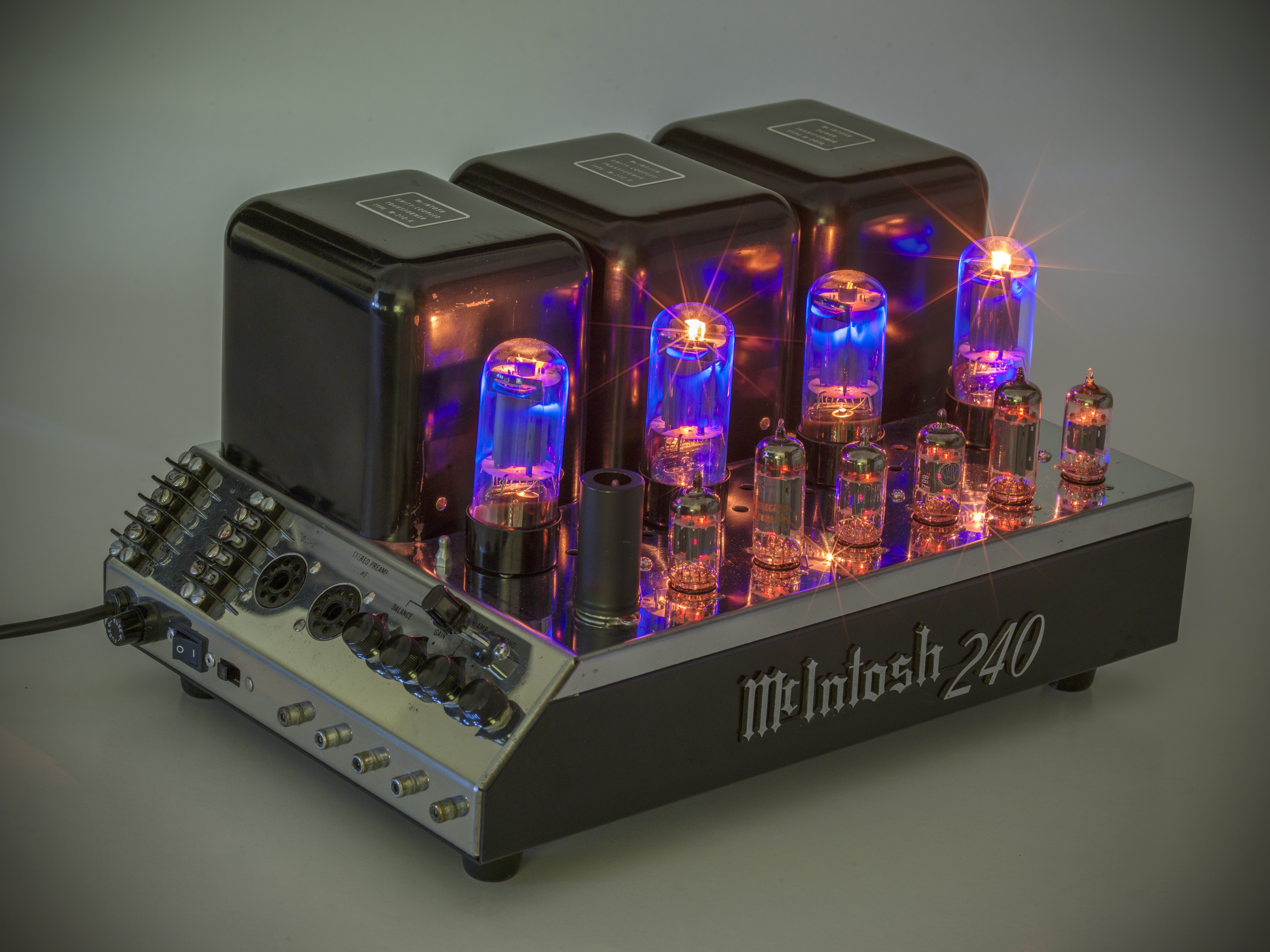 MC240 tube amplifier (early version), manufactured by McIntosh Laboratories in 1961 tube cage removed (Long-exposure photography)